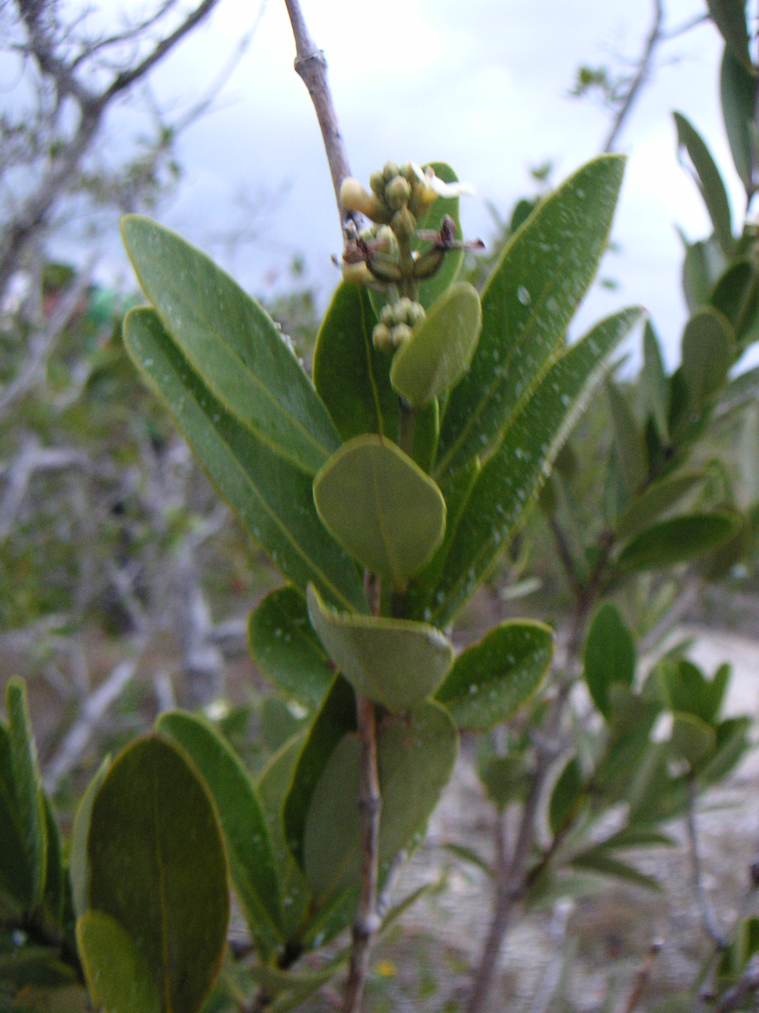 Inflorescence of Avicennia germinans (Acanthaceae-Avicennioideae), Florida Keys